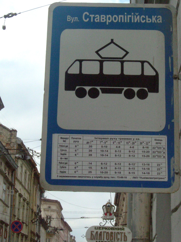 Tram stop sign / Timetable in Lviv, Ukraine.